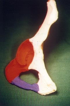 Columns seen in obturator view